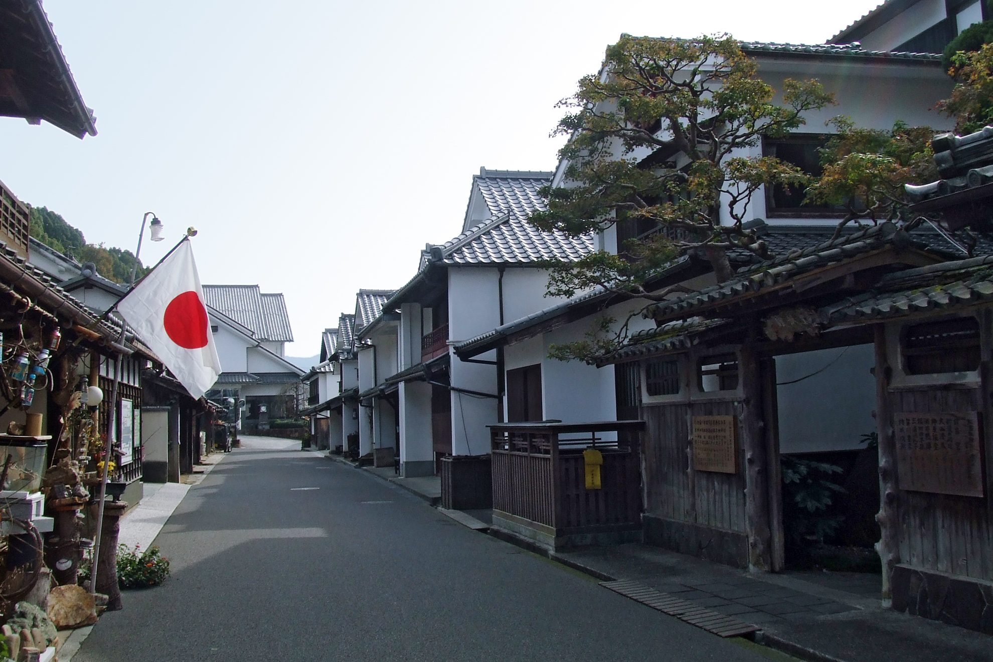 Uwa-cho Uno-machi in Seiyo, Ehime prefecture, Japan.